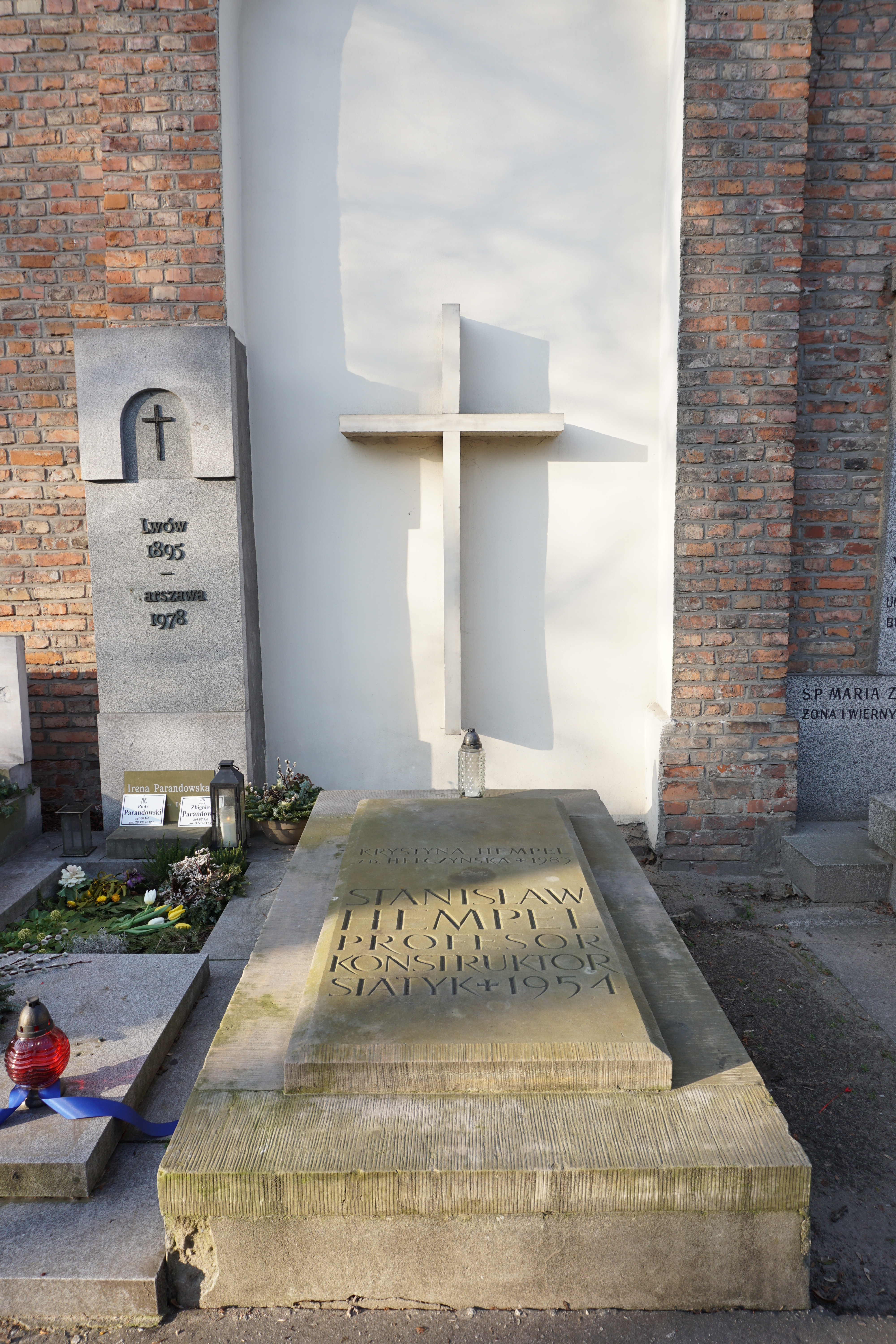 The grave of Stanisław Hempel at the Powązki Cemetery (Avenue of Deserved, grave 41)